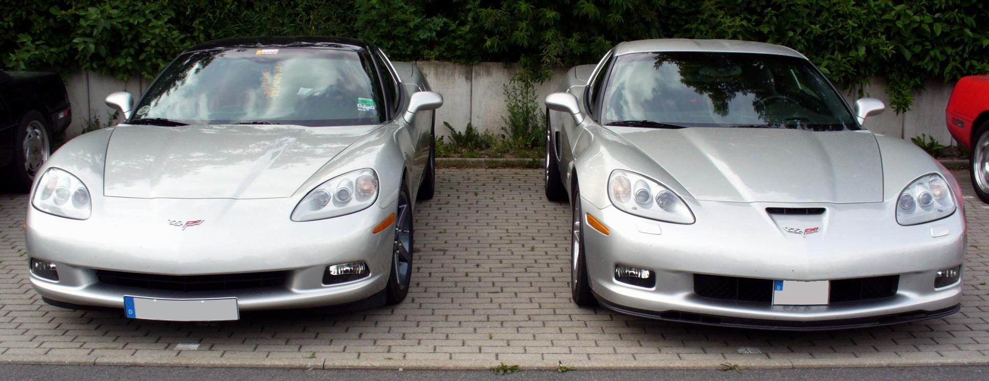 Chevrolet Corvette C6 and C6 Z06